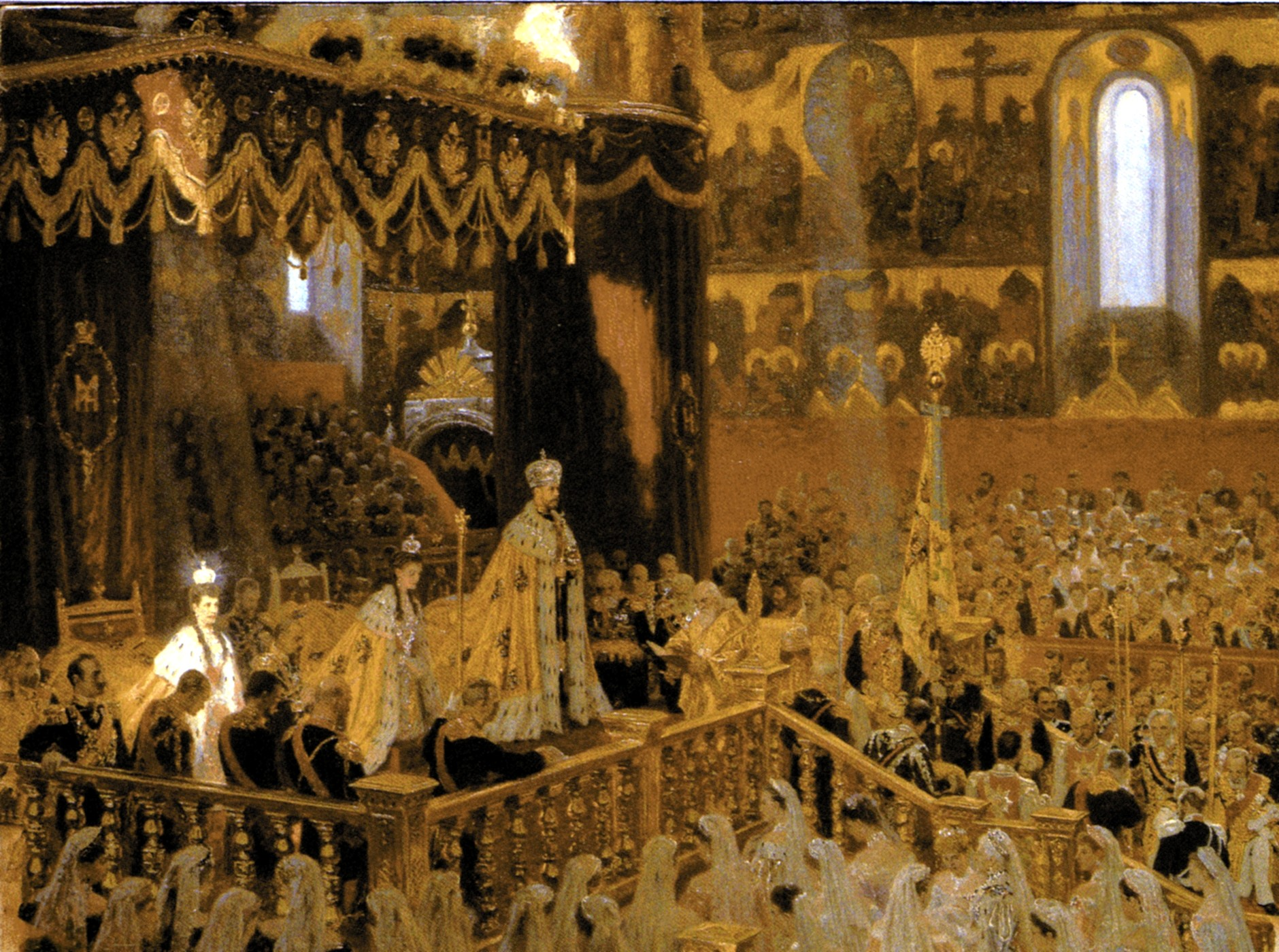 Portrait by Baketti of the coronation of Tsar Nicholas II and the Empress Alexandra Fyodorovna. St. Petersburg 1896. Portrait comes from Mrlopez2681's own colledction and was scanned by Mrlopez2681. Mrlopez2681 10:42, 5 November 2006 (UTC)